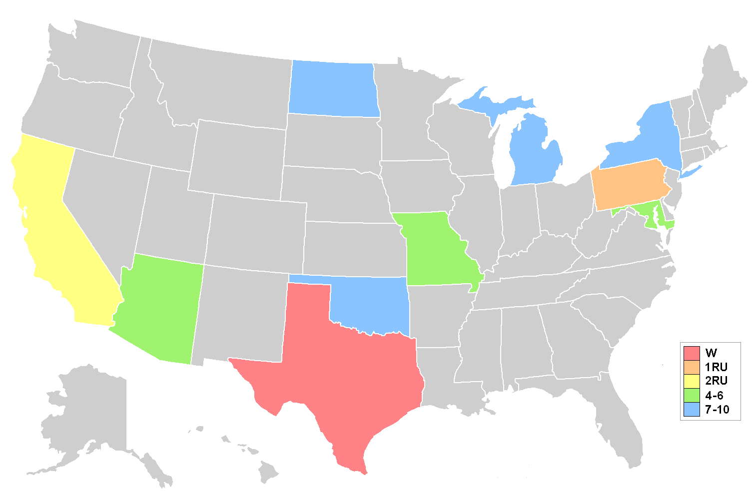 Map showing placements at the Miss Teen USA 1996 pageant. Key on graphic shows colour coding for break down of placements.